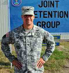 Colonel John Bogdan poses with his hands on his hips.